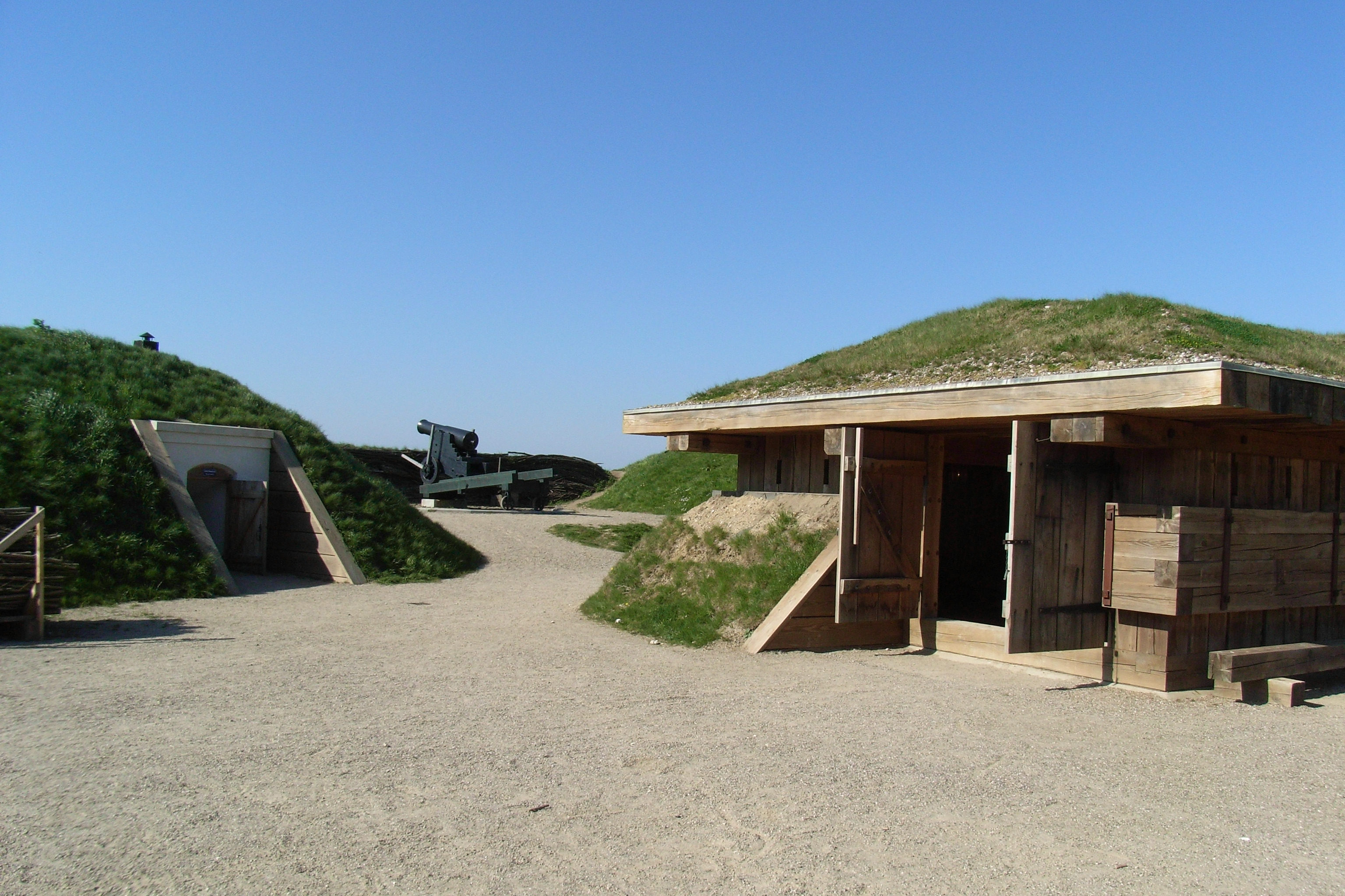 The outside area of the Historiecenter Dybbøl Banke, a museum near the city of Sønderborg in Denmark which documents the history of the Second Schleswig War (1864) and the Battle of Dybbøl (April 18, 1864)